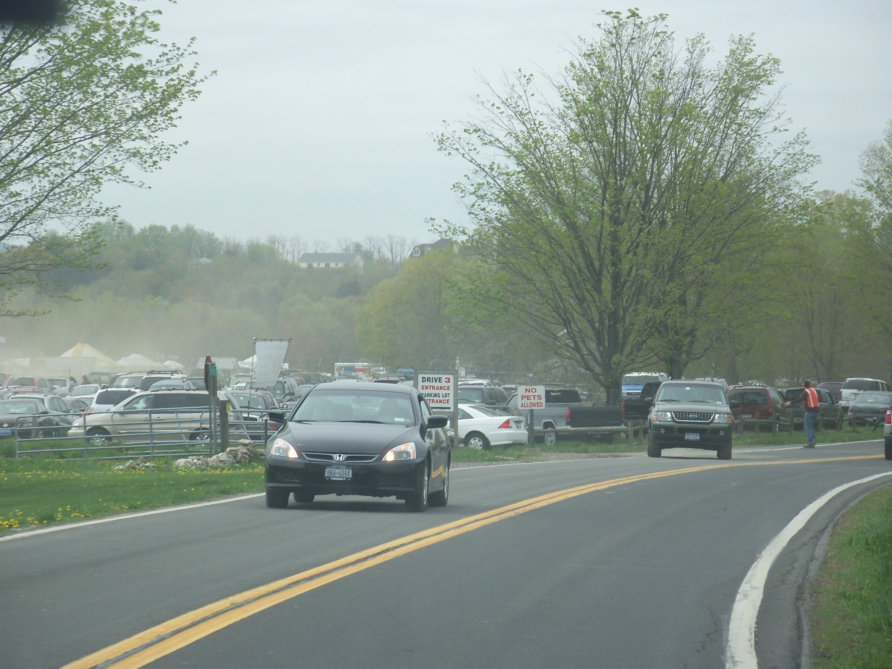 New York State Route 216 in Stormville, NY, passing by the Stormville Airport during a large flea market.